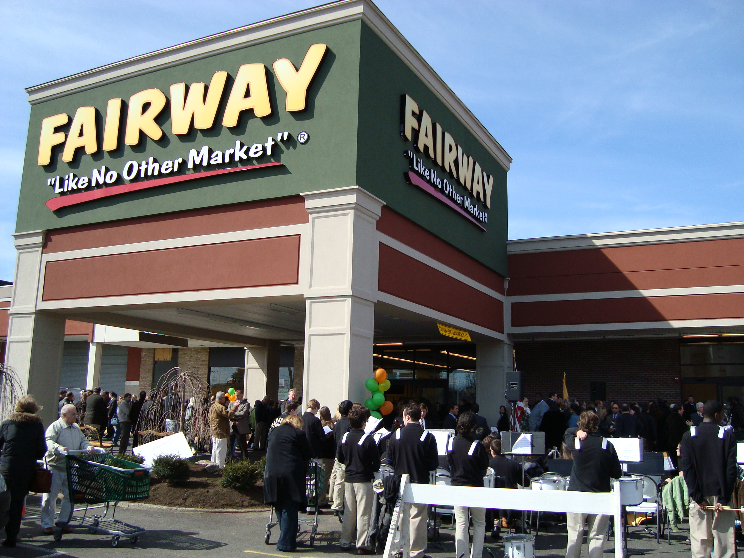 Picture of Fairway Market - Paramus Location, grand opening